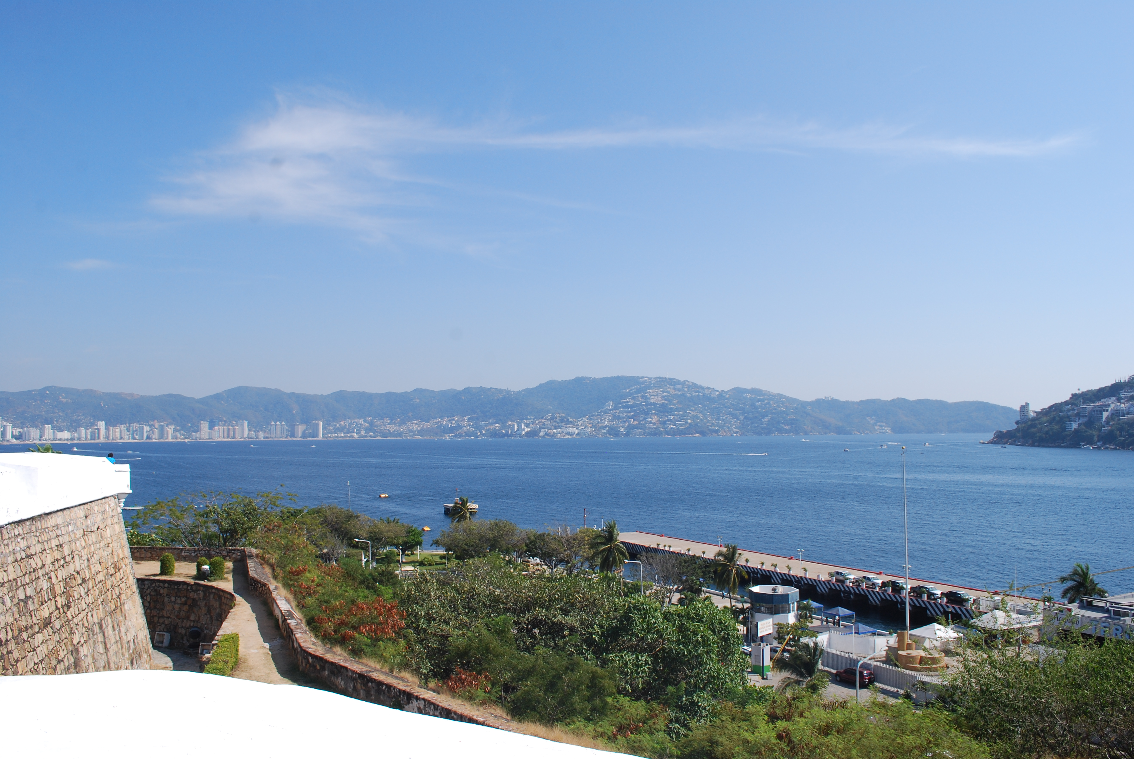 View of the Acapulco Bay from the San Diego Fort